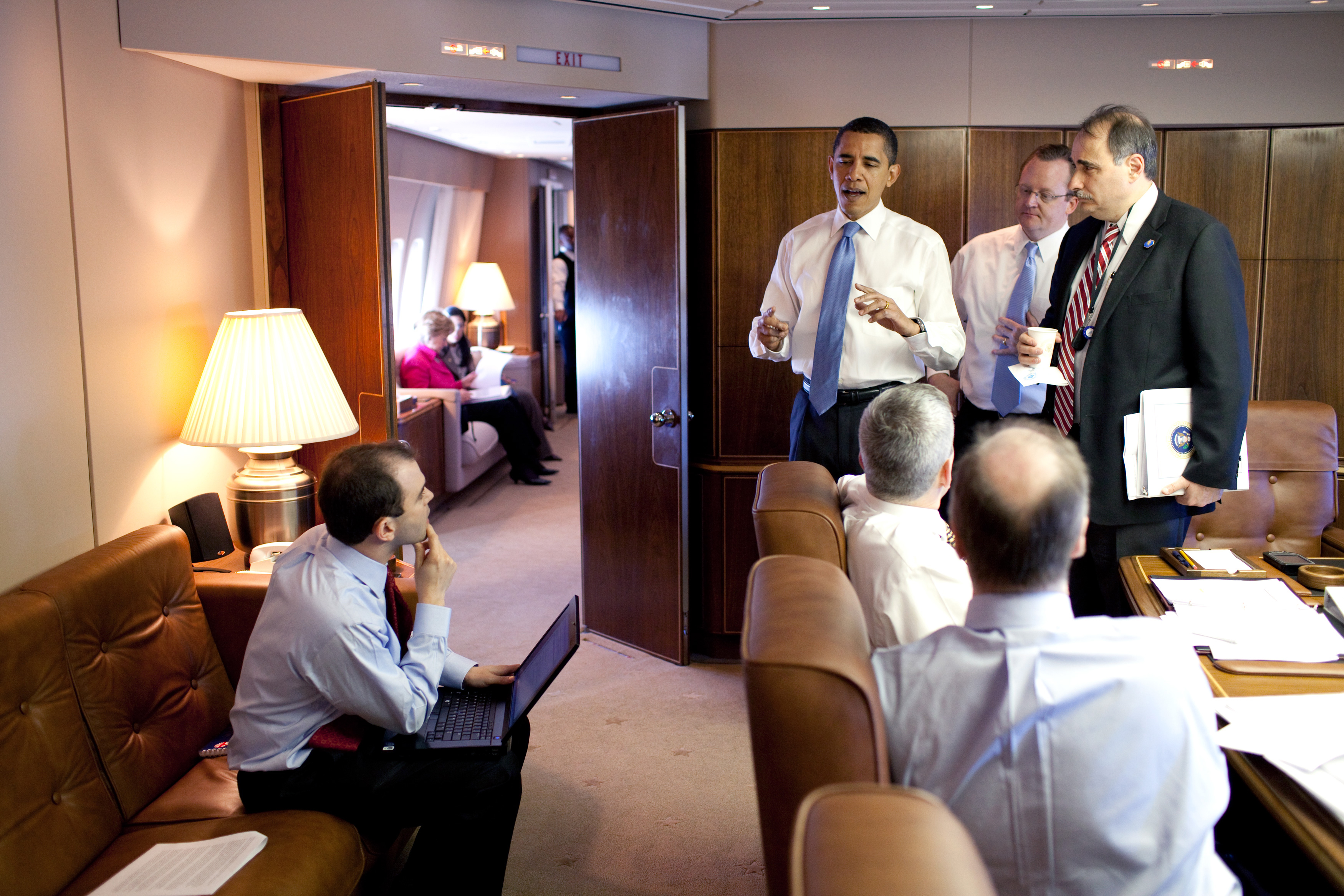 President Barack Obama meets with staff aboard Air Force One during their flight April 3, 2009, from Stansted Airport in Essex, England, en route to Strasbourg, France. On the president's left-hand side are White House Press Secretary Robert Gibbs and presidential advisor David Axelrod.